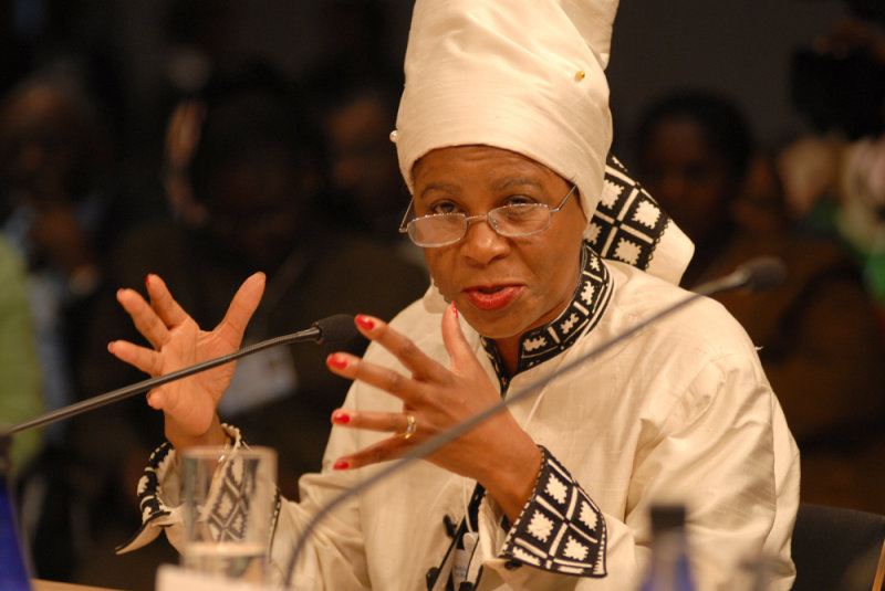 Mamphela Ramphele, South African businesswoman.